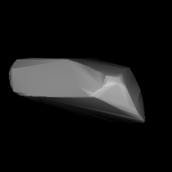 3D convex shape model of 1286 Banachiewicza, computed using light curve inversion techniques. J. Hanuš, J. Ďurech, M. Brož, B. D. Warner (June 2011). "A study of asteroid pole-latitude distribution based on an extended set of shape models derived by the lightcurve inversion method". Astronomy and Astrophysics 530: A134. ISSN 0004-6361. arXiv